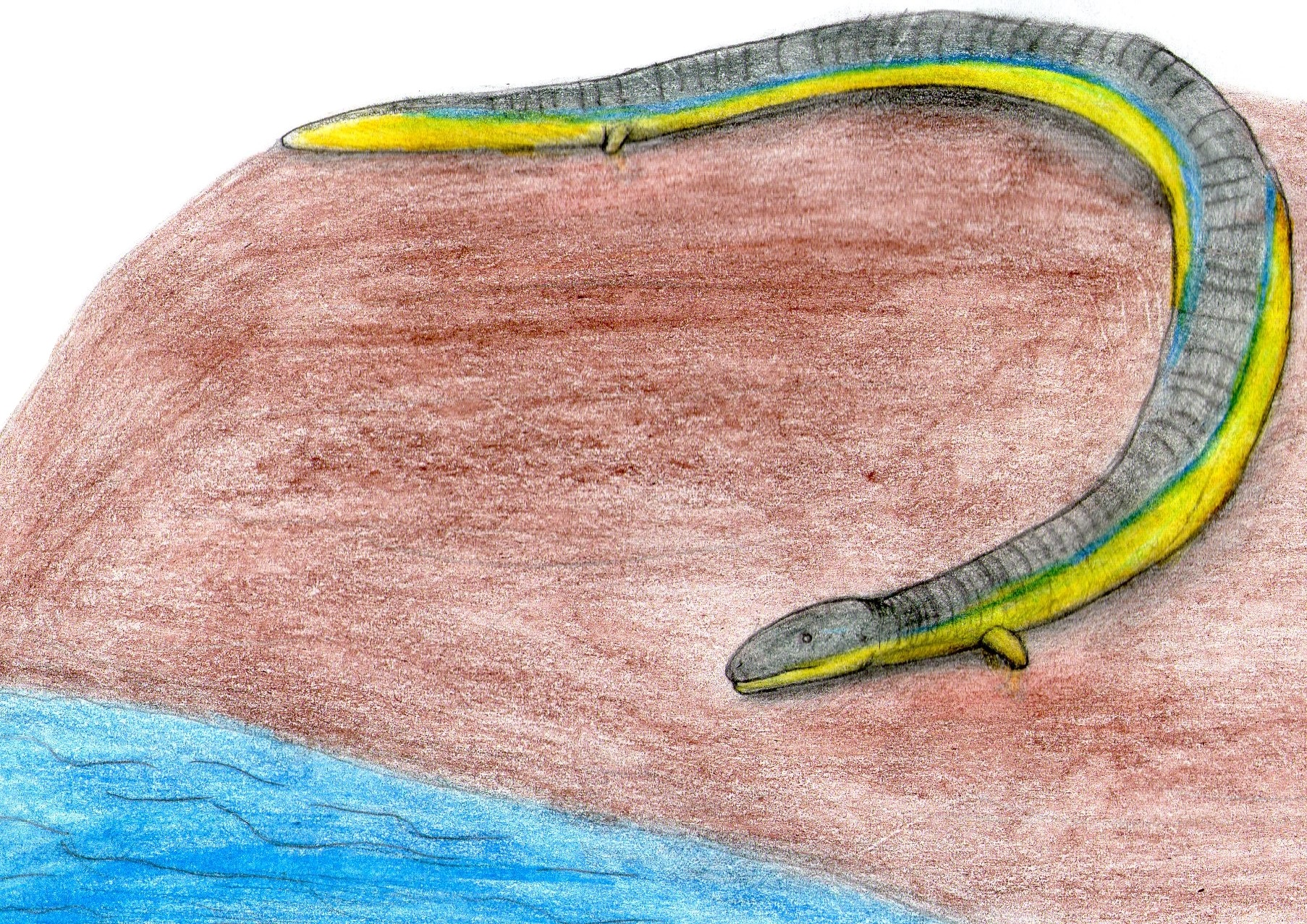 restauration the Rubricacaecilia